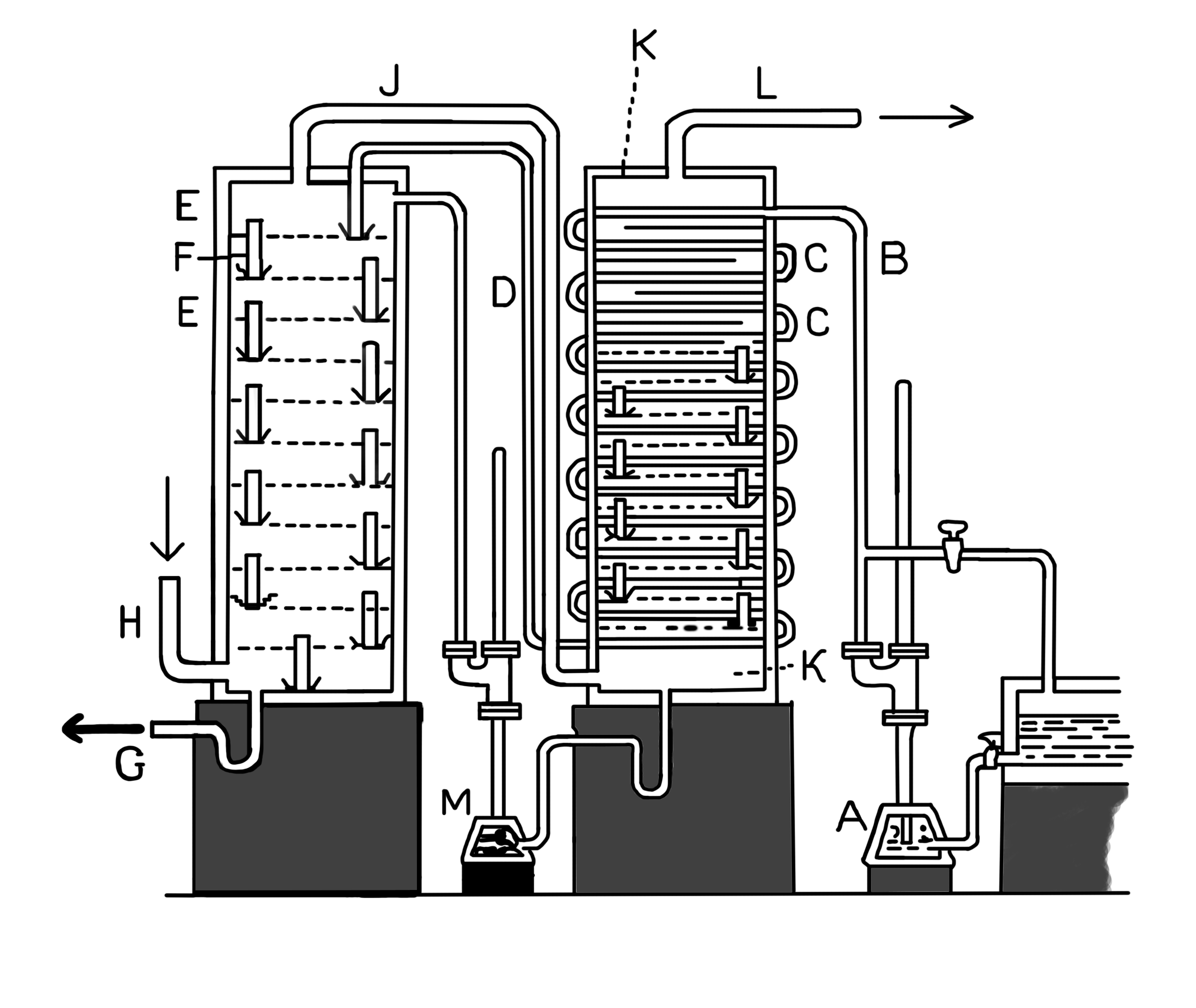 Coffey still